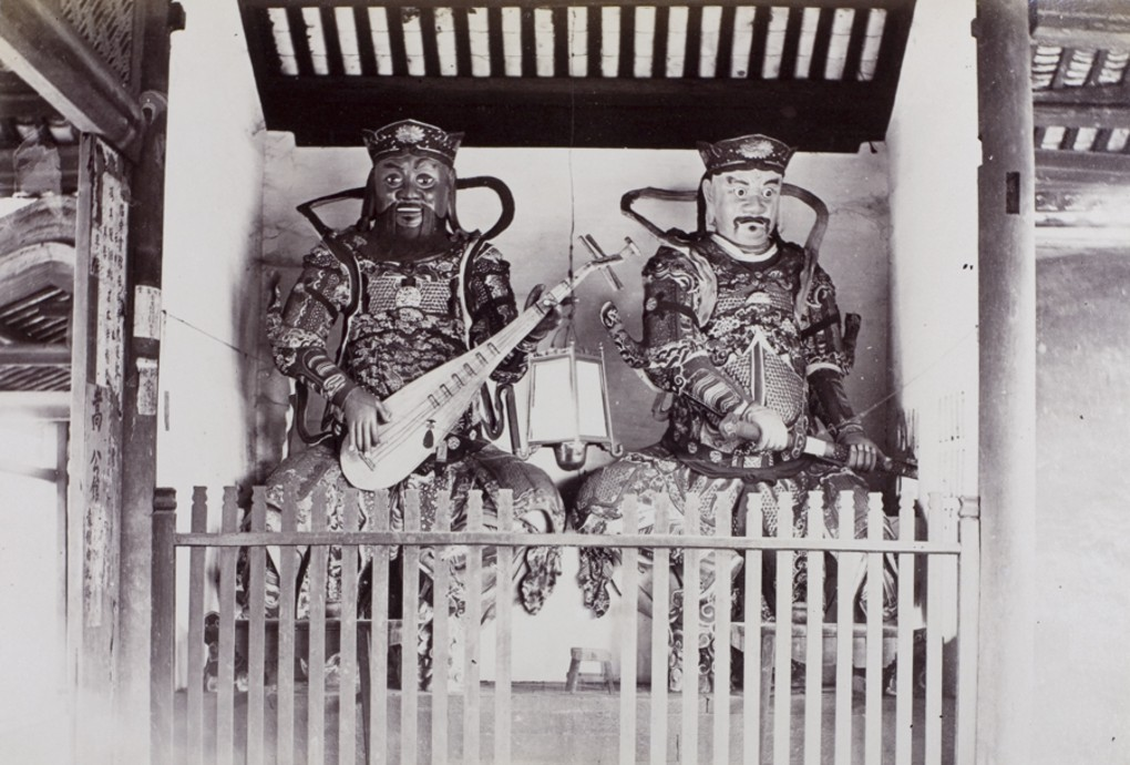 No 349 - Ting-Wong, Guardians of the Portal